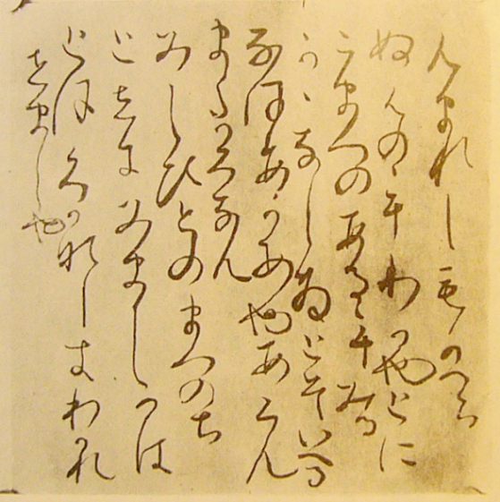 Tosa nikki（Tosa Diary)(10th century) faithfully copied by Fujiwara no Teika(1162-1241), ink on paper, 13th century, Japan. This image is a last part of the diary. "ん(む)まれしもかへら ぬものをわかやとに こまつのあるをみる かヽなしさとそいへる なほあかすやあらん(む) またかくなん(む) みしひとのまつのち とせにみましかは とほくかなしきわかれ せましや." (生まれしも帰らぬ者を我が宿に小松のあるを見るが悲しさとぞ言へる。なほ飽かずやあらむ、またかくなむ。見し人の松の千歳に見ましかば遠く悲しき別れせましや。)